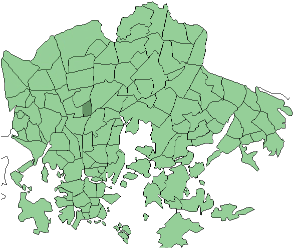 Districts of Helsinki, Metsälä highlighted